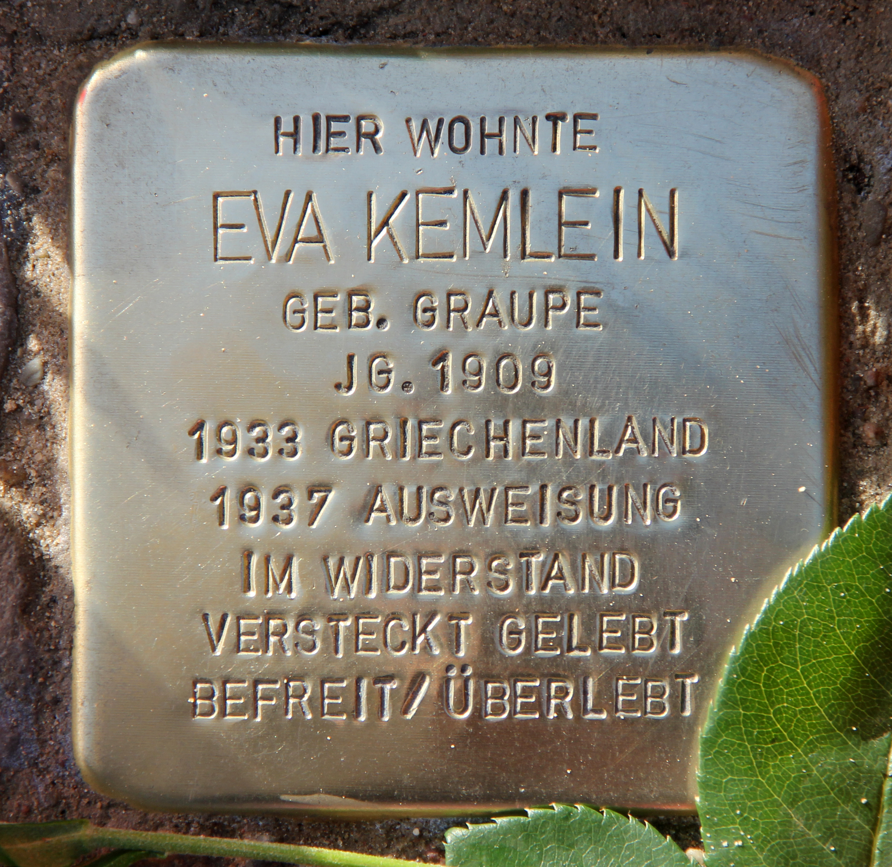 "Stolperstein" (stumbling block), Eva Kemlein, Rudolstädter Straße 93, Berlin-Wilmersdorf, Germany